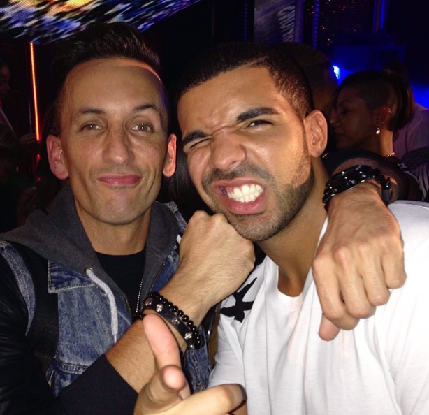 Clinton Sparks in the club with Drake.